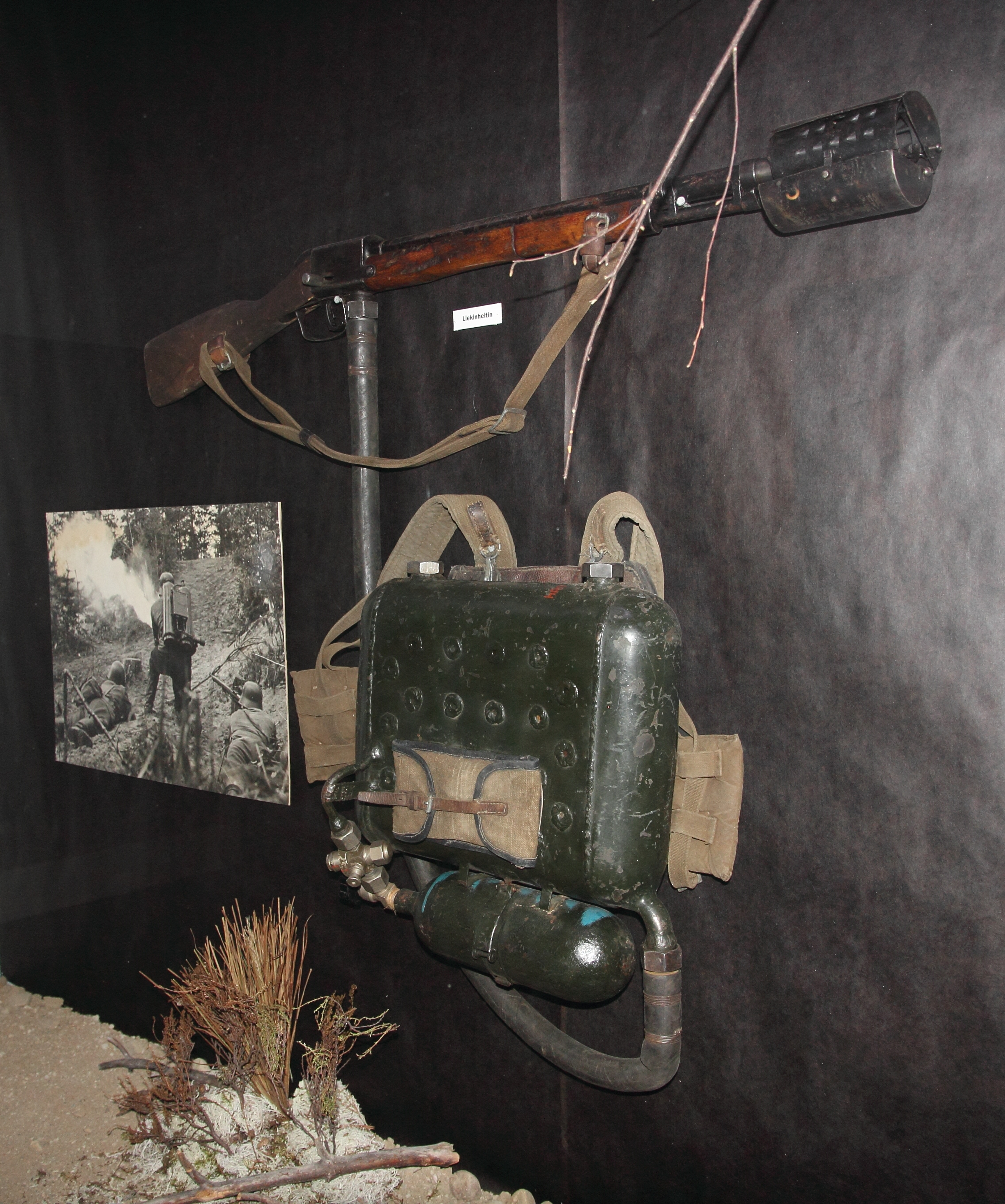 Captured Soviet ROKS-2 flamethrower. Photographed in Mikkeli Infantry museum.